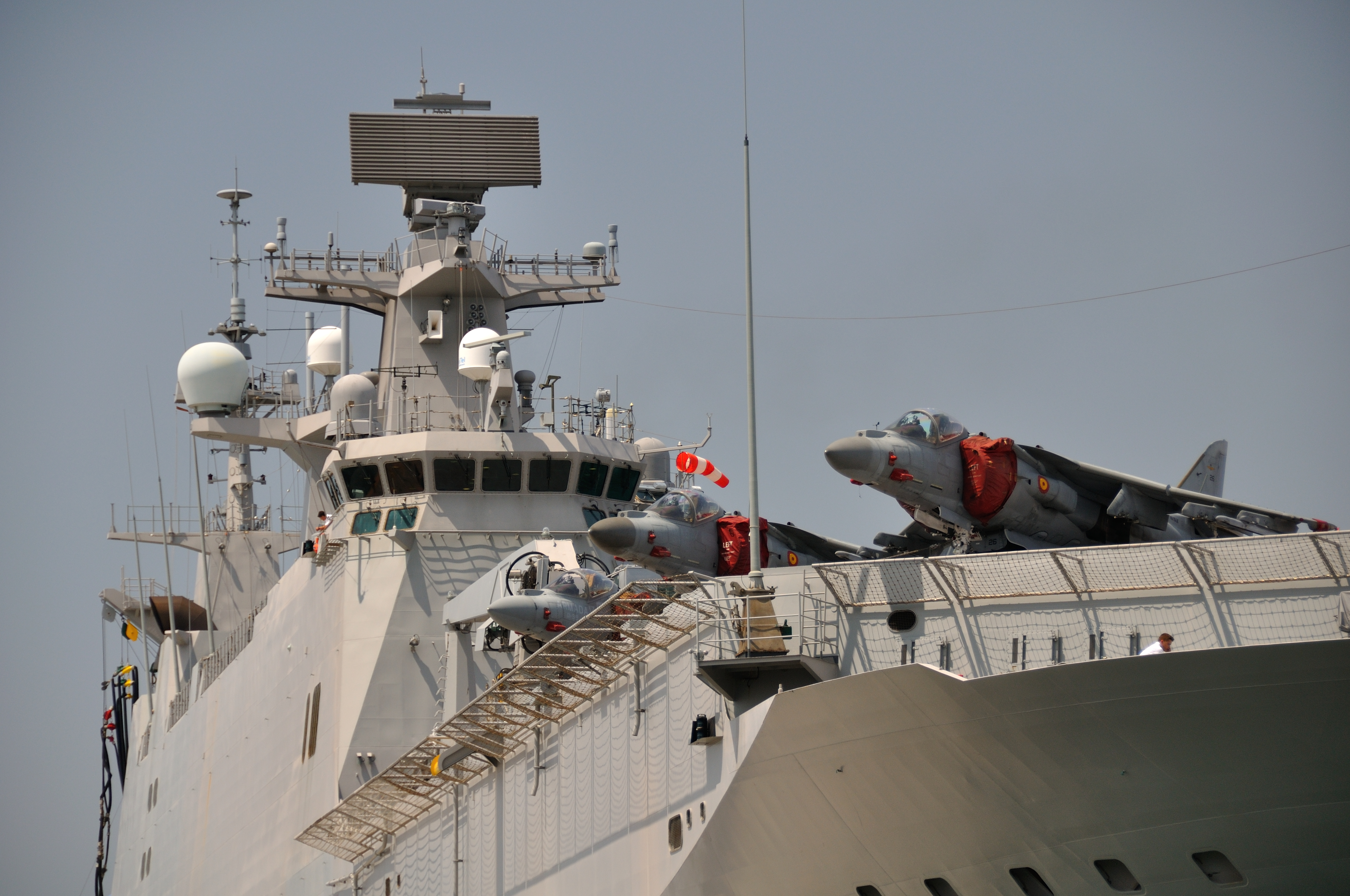 LHD Juan Carlos I in Málaga, Spain.